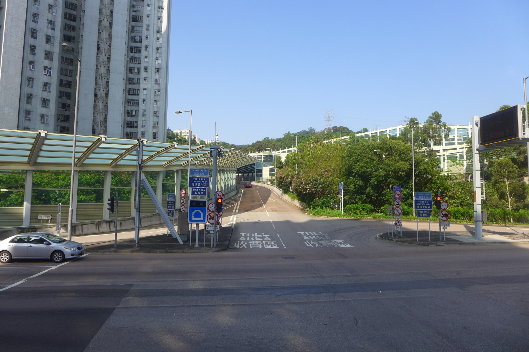 Tsing Sha Highway Tai Wai Entrance